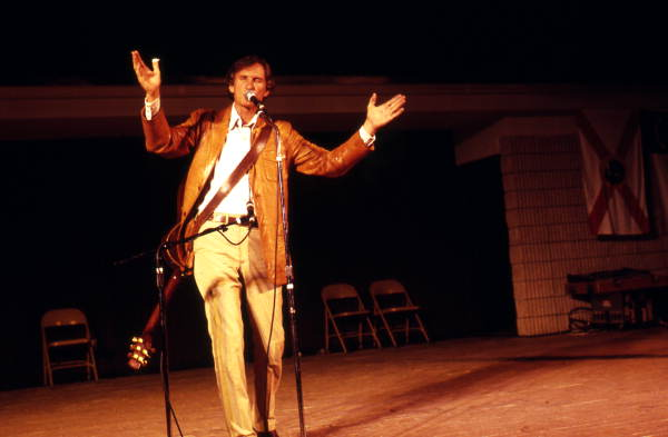 Local call number: FS864593 Title: Gamble Rogers performing at the Florida Folk Festival: White Springs, Florida Date: May 26, 1985 Photographer: David Alan Taylor Physical descrip: 1 slide - col. Series Title: Folklife Collection Repository: State Library and Archives of Florida, 500 S. Bronough St., Tallahassee, FL 32399-0250 USA. Contact: 850.245.6700. Persistent URL